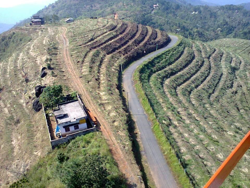 View from Elapeedika Tower